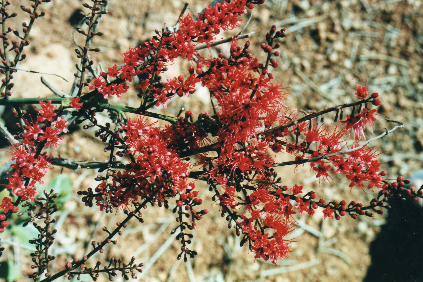 Red-flowered plant Tony below suggested it might be Combretum coccineum (have a look at the link suggested). Otherwise known as Poivrea coccinea in the Bushwillow Family (Combretaceae) ... trees and shrubs (5 species native to Madagascar). Possibly?